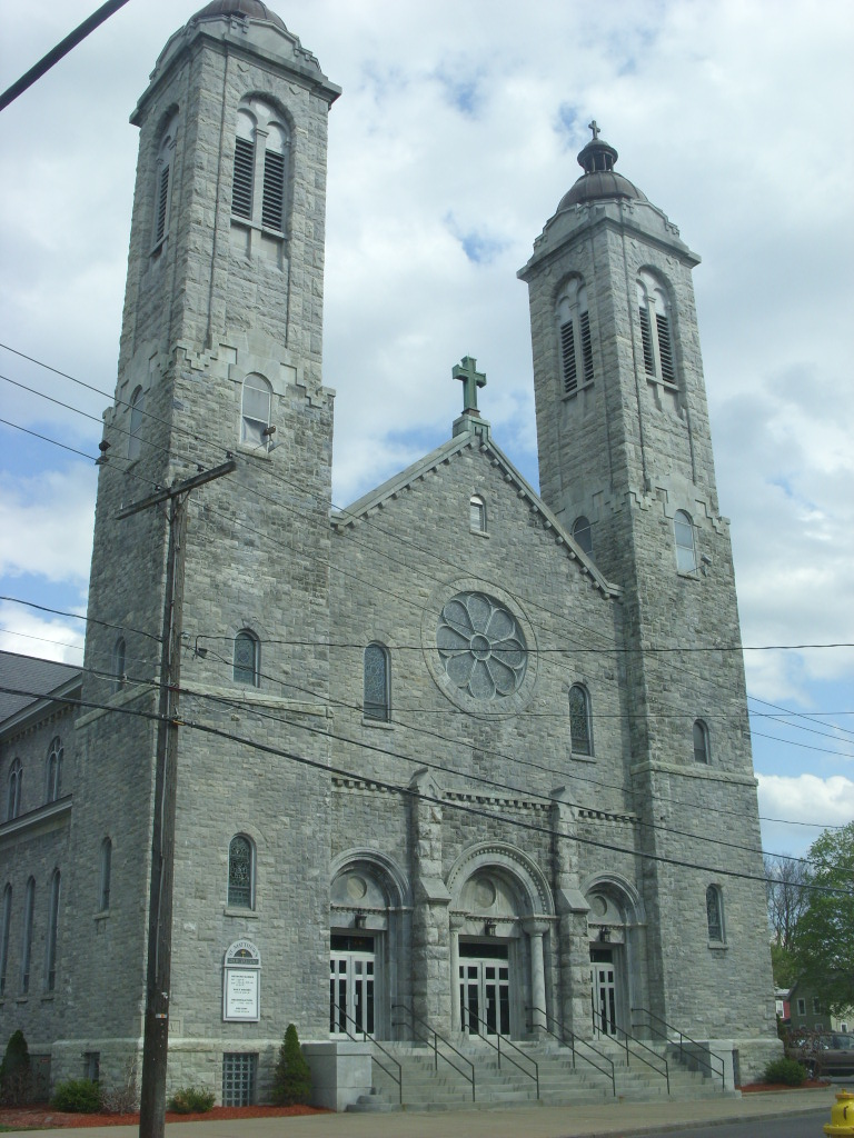 St. Matthews Roman Catholic Church in East Syracuse, New York.